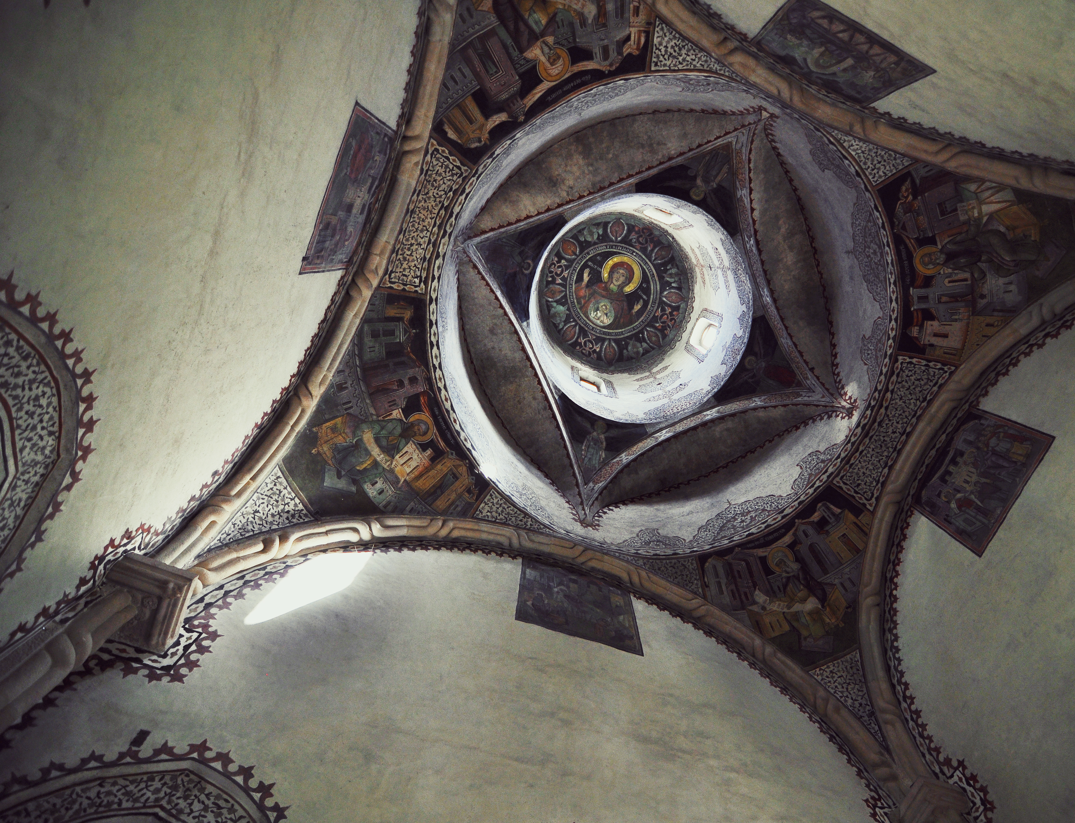 Narthex vaulting with slanting arches in the "The Resurrection" Church — at Stelea Monastery in Targoviste, Romania. Church founded by Moldavian Vasile Lupu (hence the Moldavian architectural style imported to Wallachia), and finished in 1645. Romanian Orthodox Church in Târgovişte, Romania.